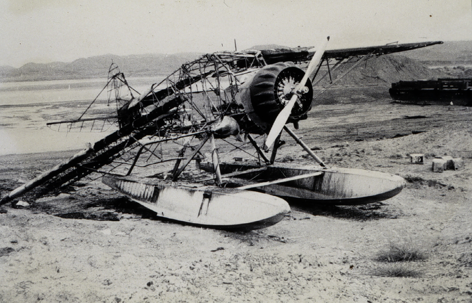 William Husemeyer's Stinson SR-5 Reliant, burned at Platinum, Alaska. Triangulation party of A. Newton Stewart. Southwest Alaska.